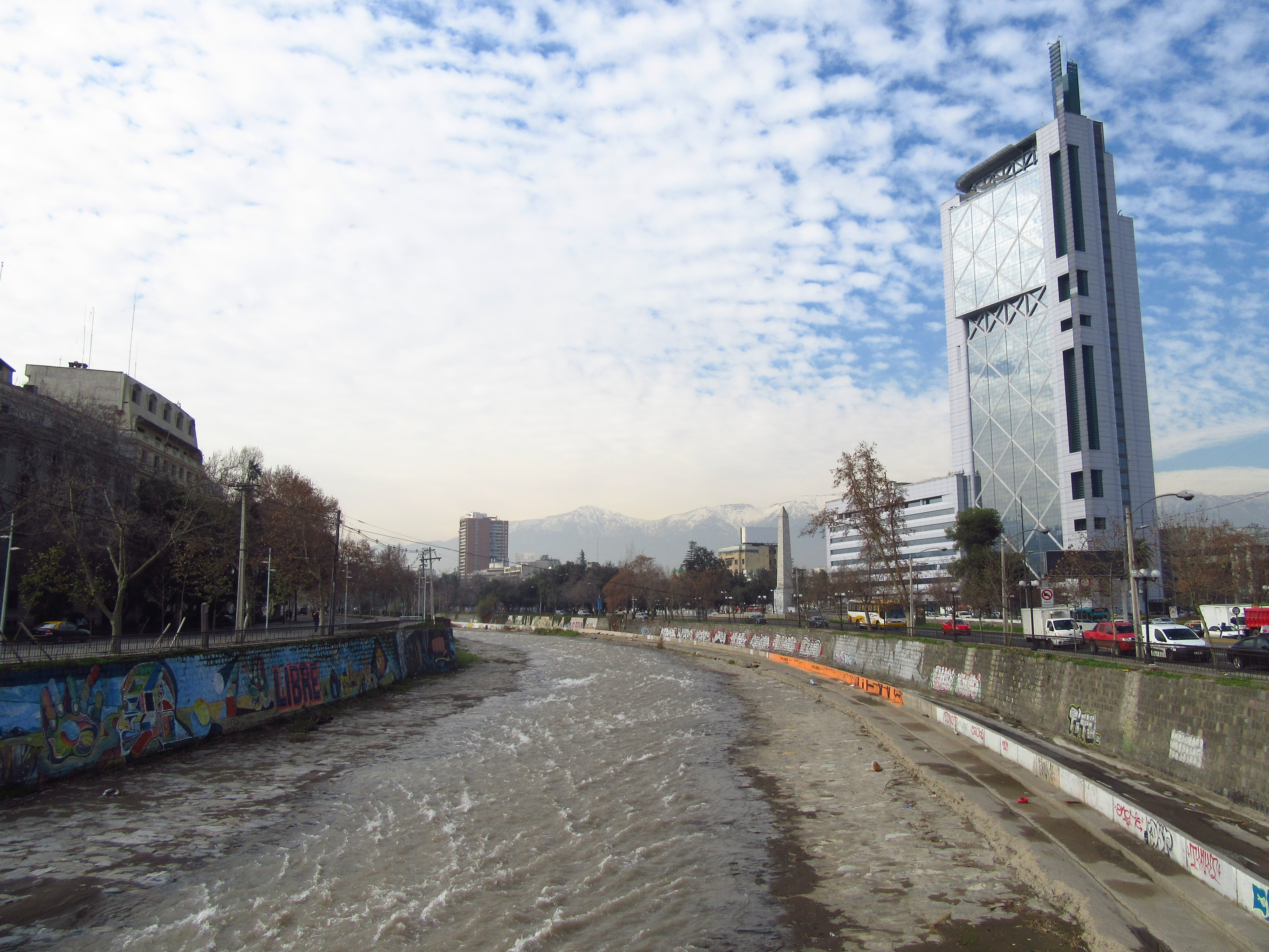 2017 in Santiago de Chile